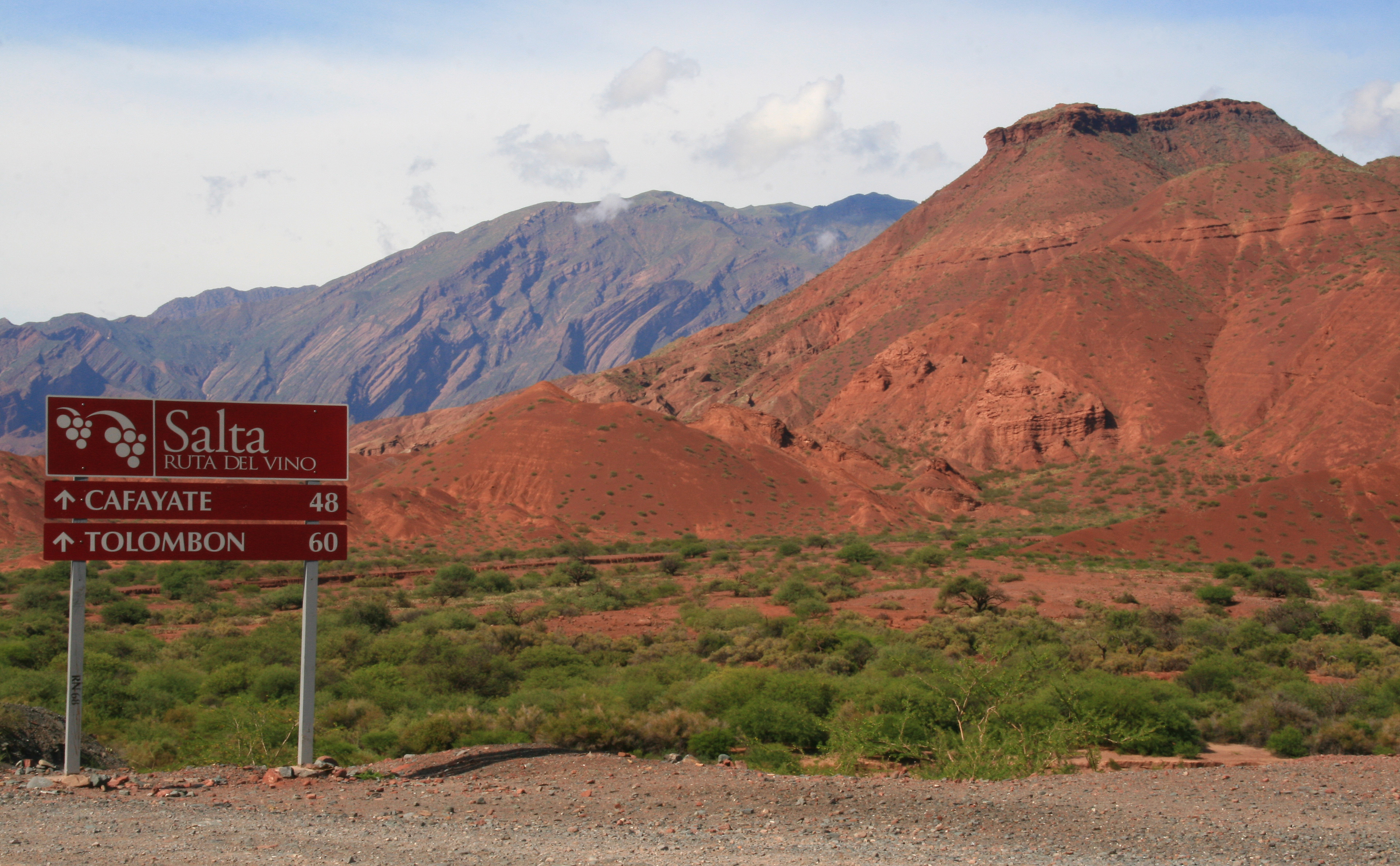 Salta wine region of Argentina